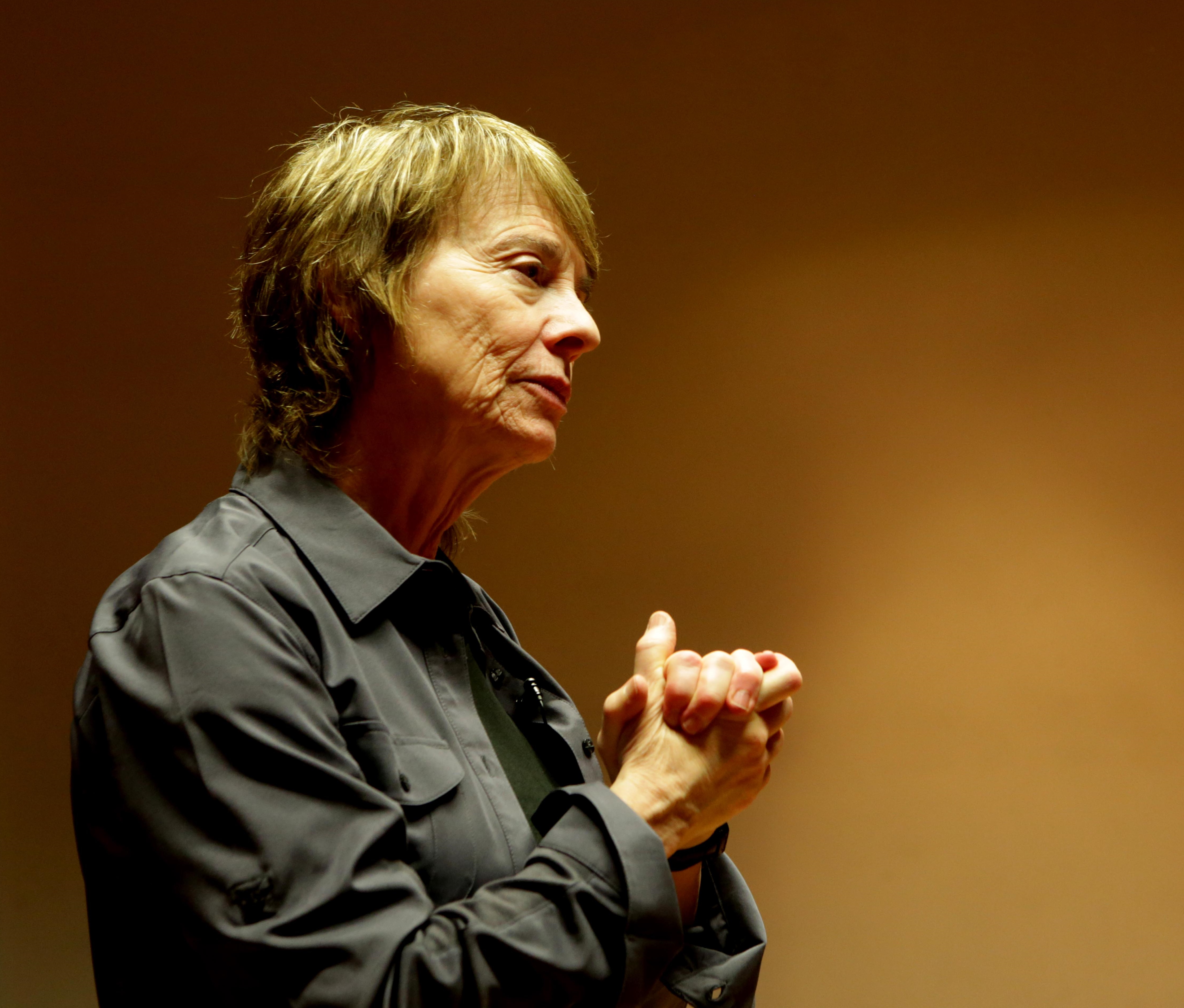 This is my own cropped version of an image that was downloaded from Wikimedia Commons, which the Commons file's uploader had gotten from Flickr. The original image is "File:Camille Paglia no Fronteiras do Pensamento São Paulo 2015 (21440796269).jpg".